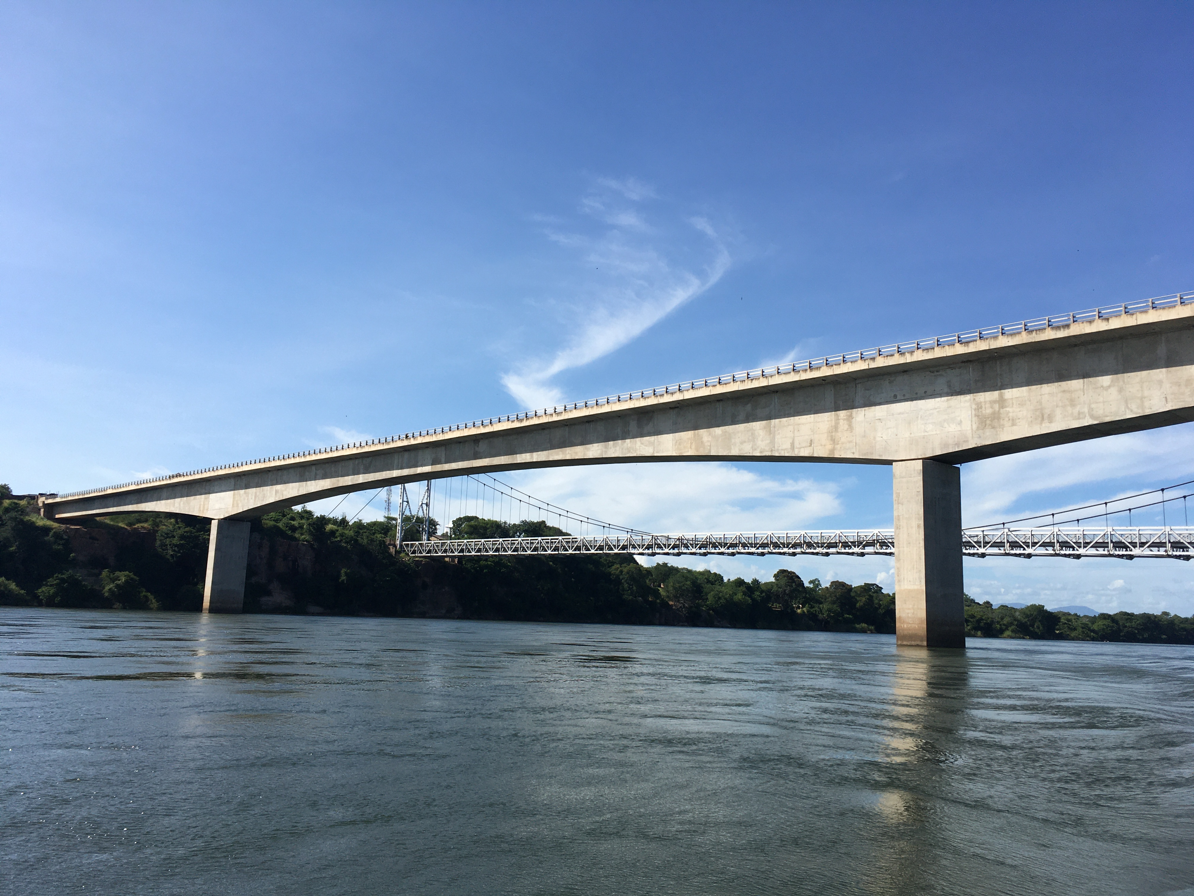 This is on the main road (R3 in Zimbabwe) between Harare and Lusaka This is an image with the theme "Africa on the Move or Transport" from: Zimbabwe